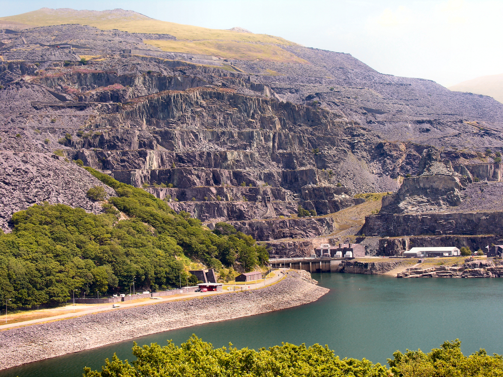 Dinorwig quarry, Llanberis, which at one time employed 3,000 men, now closed but the quarry workshops are preserved as the National Slate Museum.